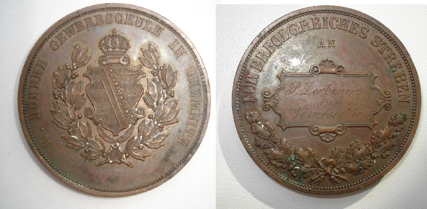 Медаль за успехи в учении, которую получил П.н. Дербенёв в Gewerbeakademie в Хемнице (Германия).